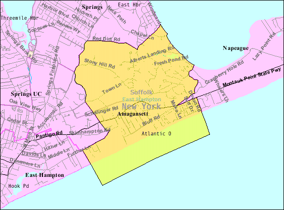 U.S. Census 2000 reference map for Amagansett